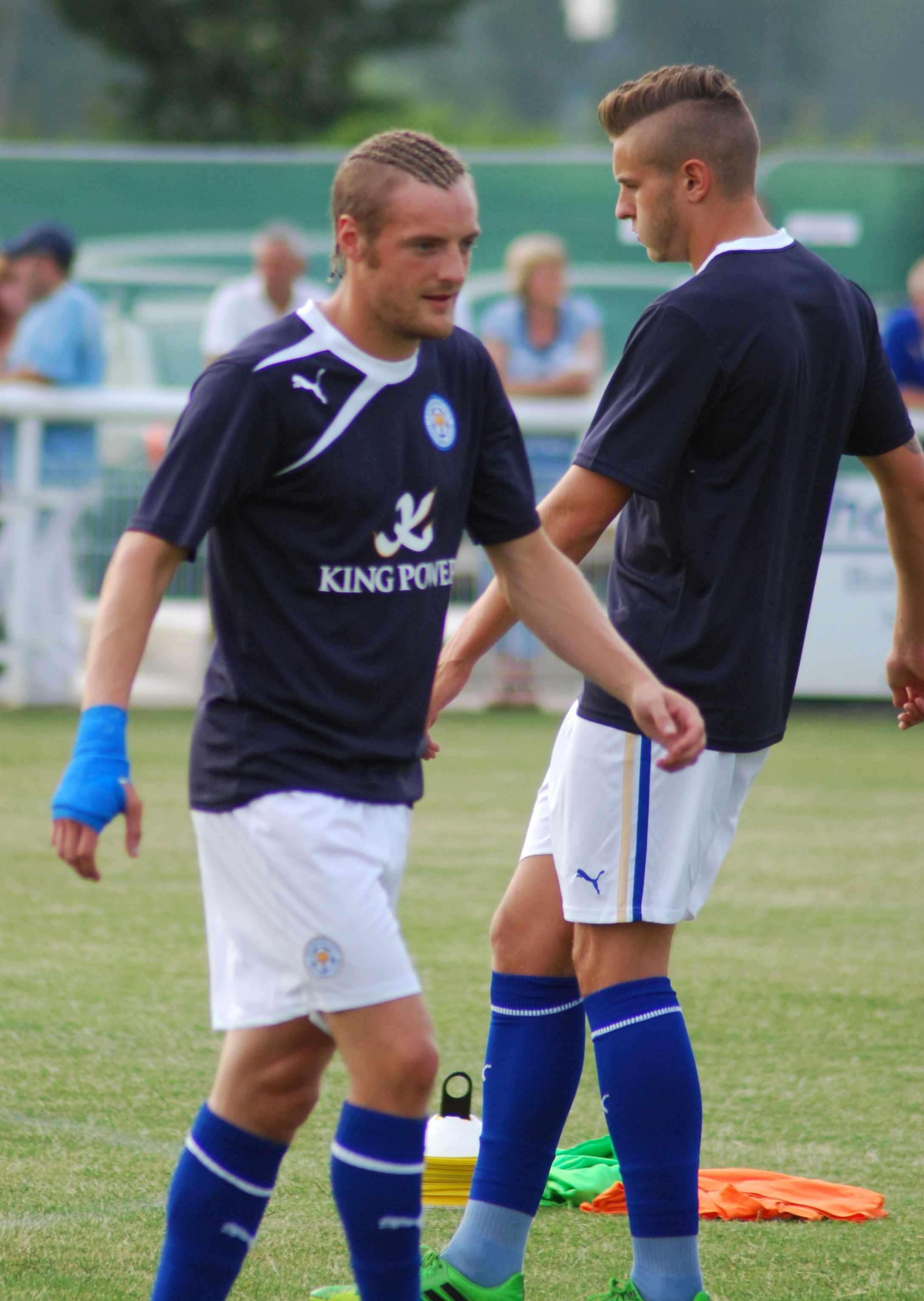 Pre-Season 2013 vs Leamington Spa